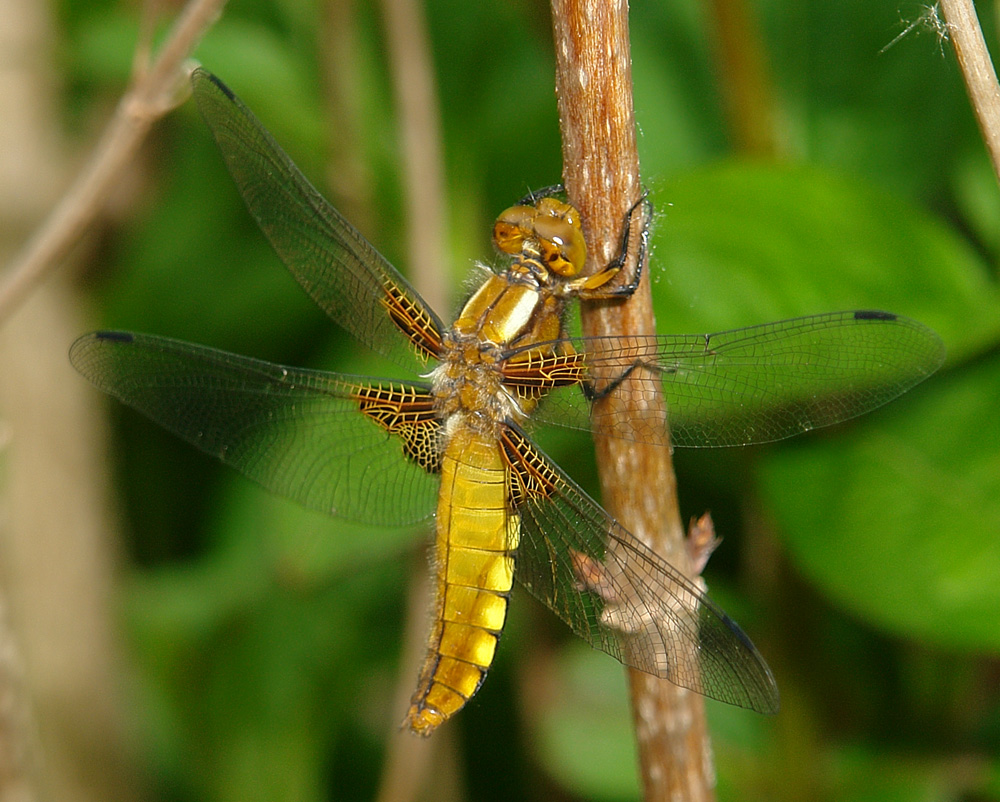 Broad-bodied Chaser, female